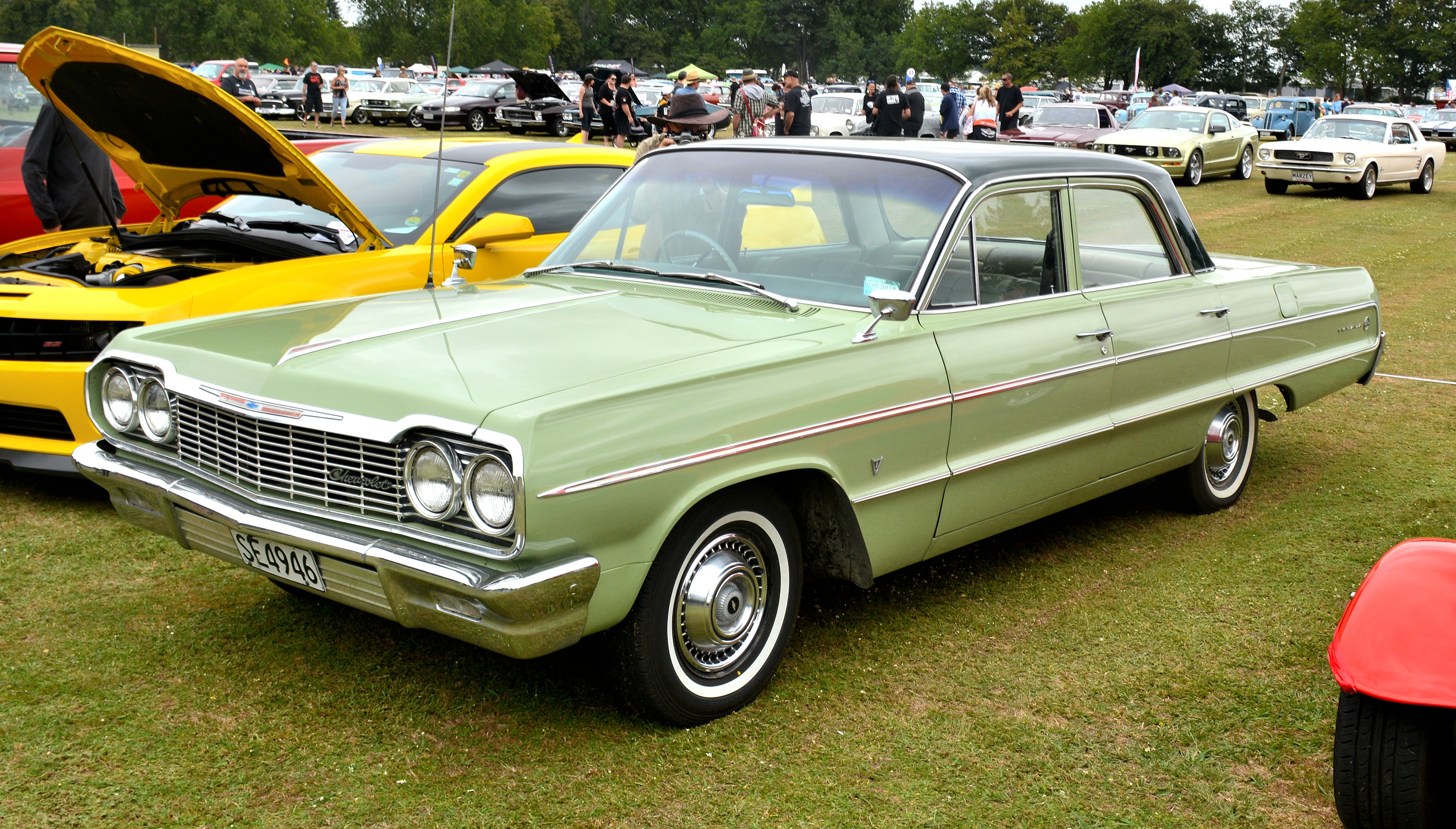 At Morrinsville 2017,New Zealand